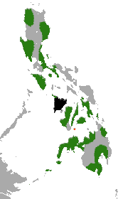 Giant Golden-crowned Flying Fox (Acerodon jubatus) range (green — extant, orange — possibly extinct, black — extinct)